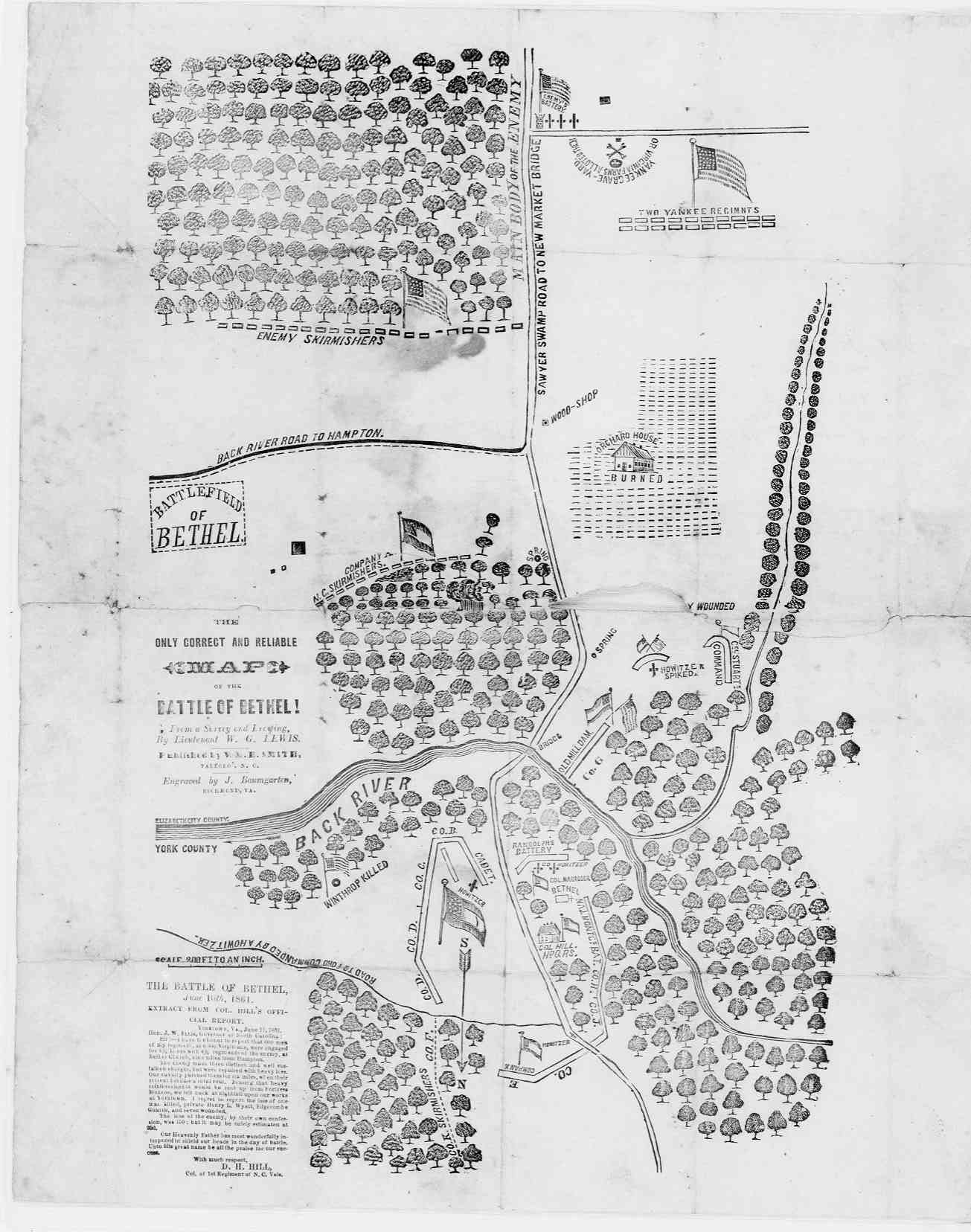 Engagement at Big Bethel Church, June 10, 1861, North Carolina Museum of History